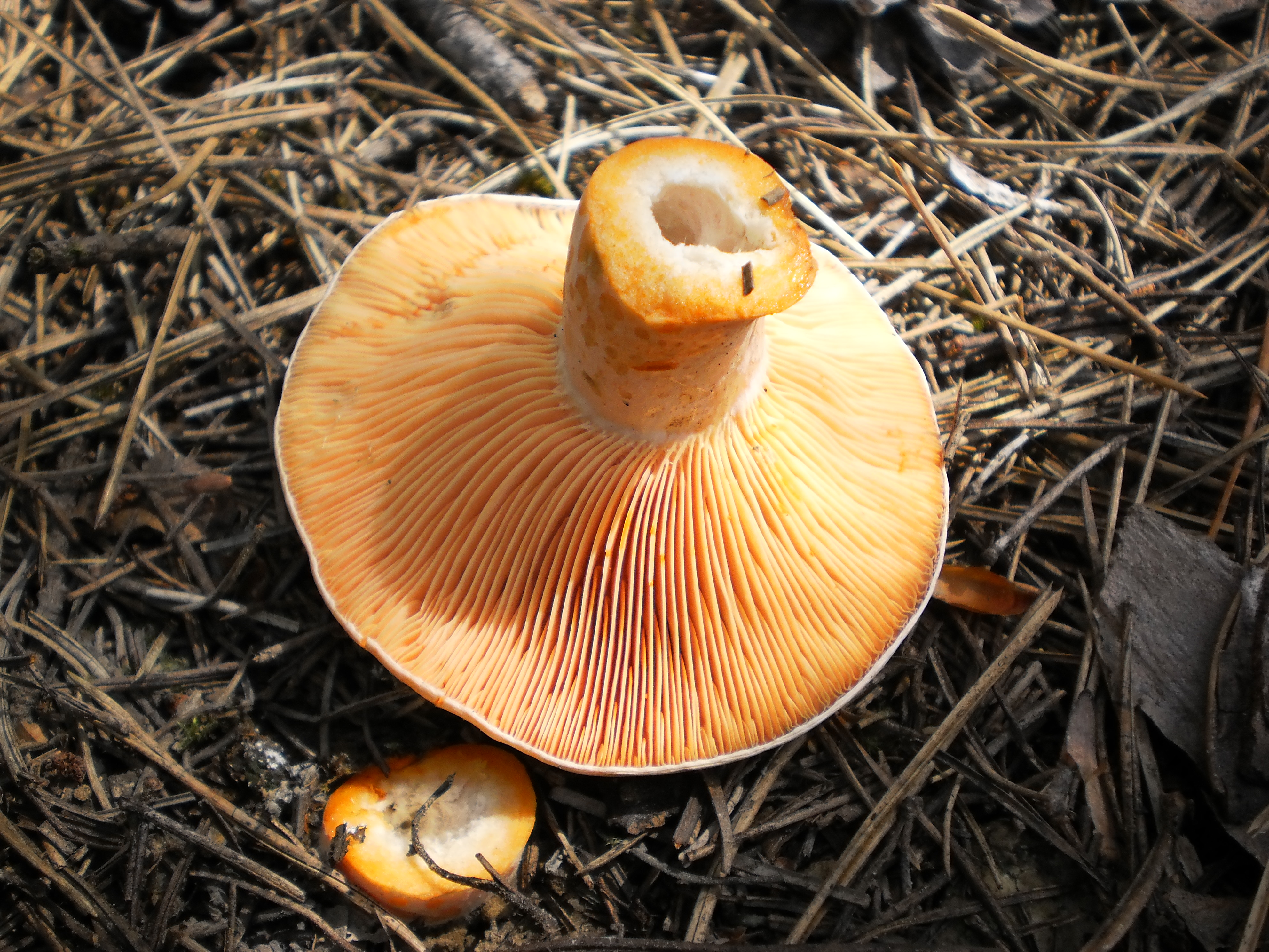 Lactarius Deliciosus, Saffron milk cap or Red pine mushroom. Own photograph. Photographed near Gabrovo, Bulgaria, 13 June 2010